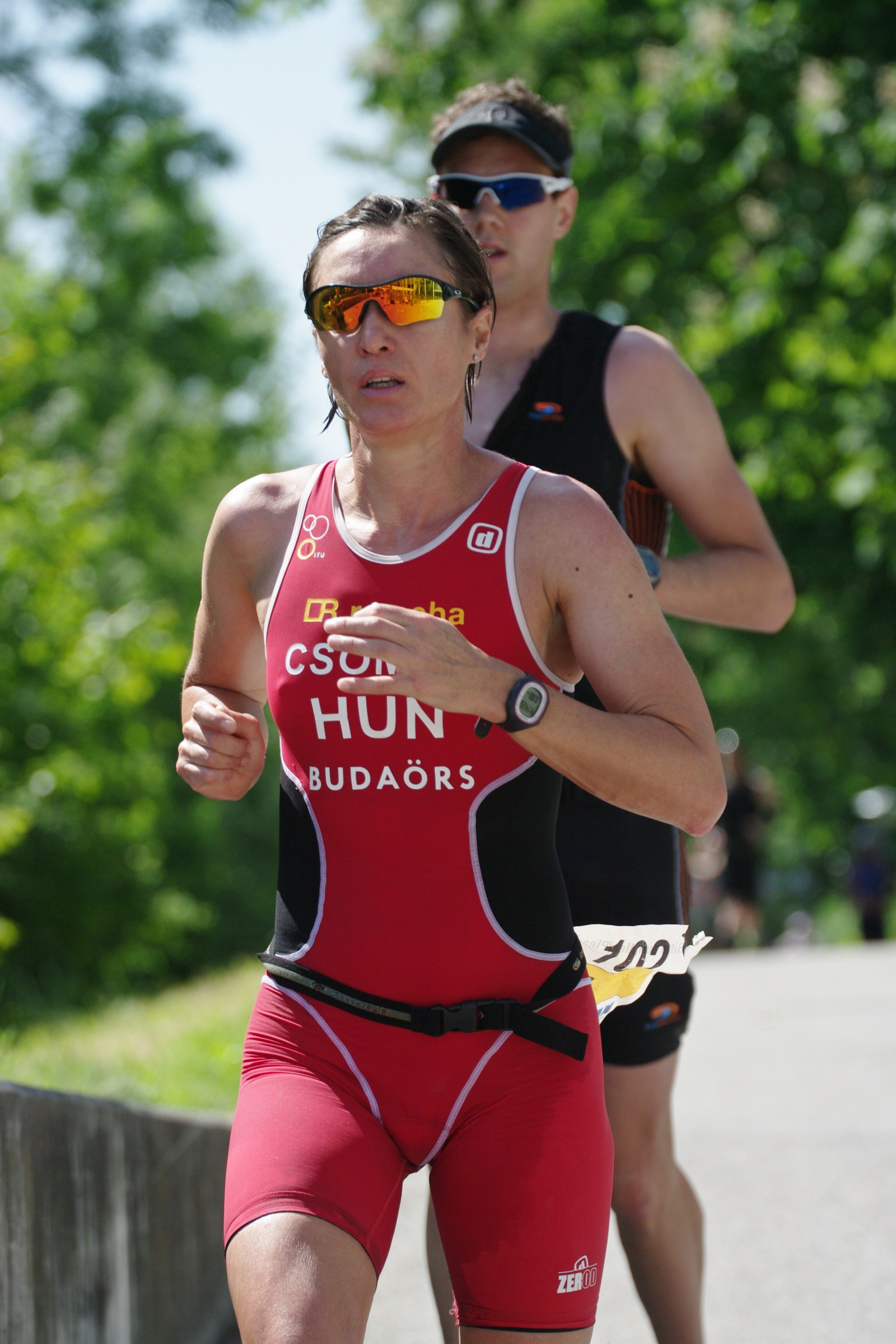 Hungarian triathlete Erika Csomor in the Ironman 70.3 Austria on 20 May 2012 in St. Pölten.